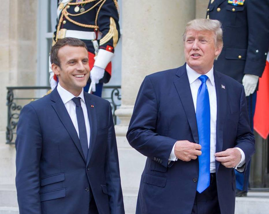 President Donald J. Trump with President Emmanuel Macron for joint press conference at Élysée – Présidence de la République française in Paris, France #POTUSinFrance